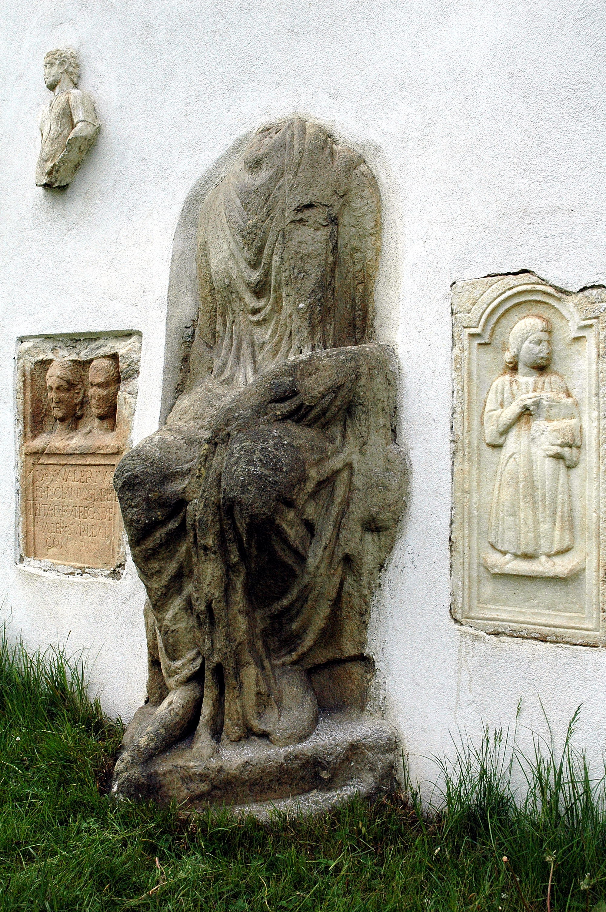 Damaged statue of the deity ISIS NOREIA at the southern wall of the parish church Saint Donatus in Sankt Donat, municipality Sankt Veit an der Glan, district Sankt Veit, Carinthia, Austria, EU